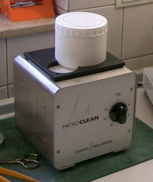 Ultrasonic cleaner for dental protheses